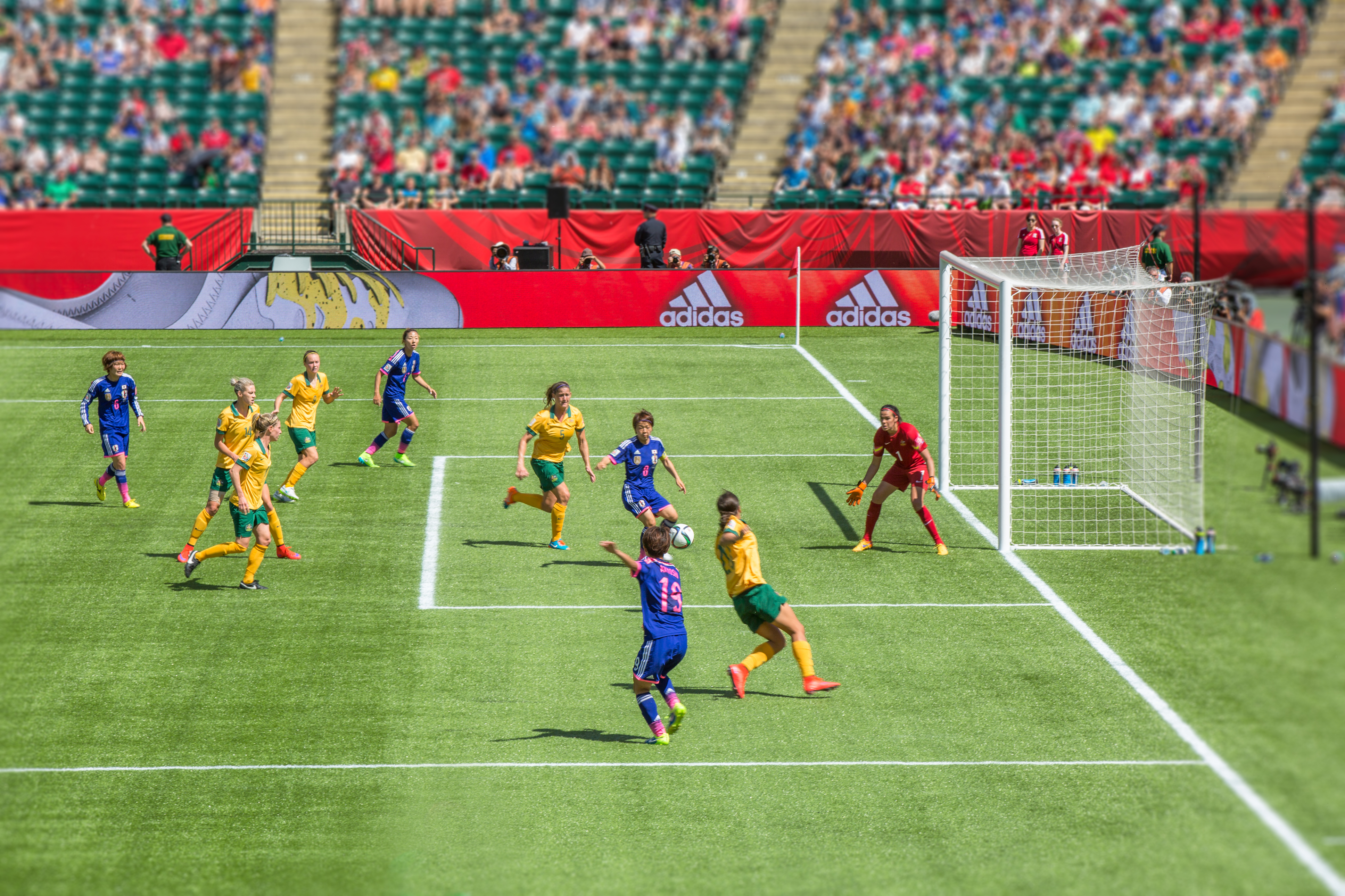 The 2015 FIFA Women's World Cup is the seventh FIFA Women's World Cup, the quadrennial international women's football world championship tournament. The tournament will be held from 6 June to 5 July 2015. Japan vs Australia Match Highlights